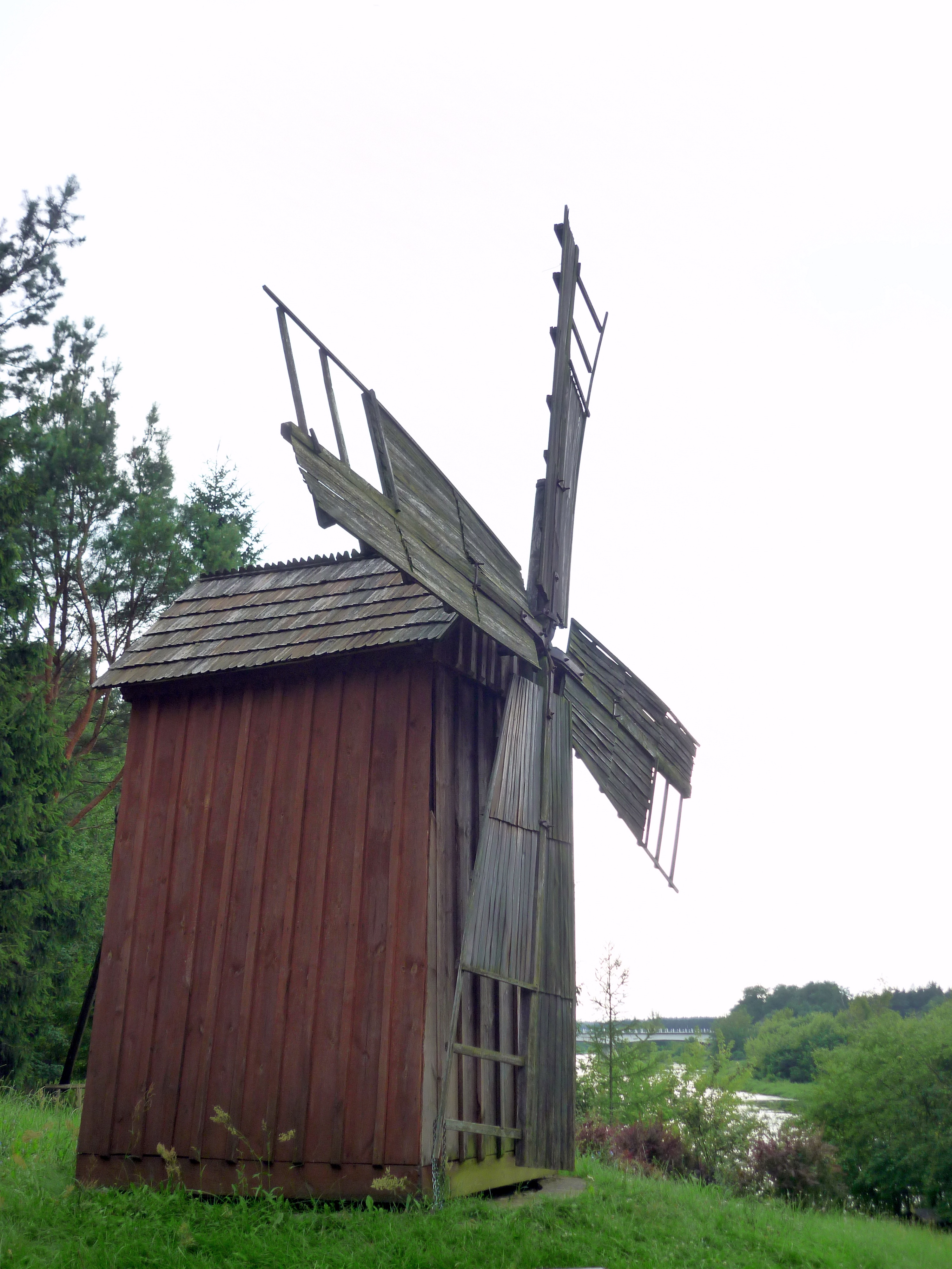 Nowogród (Poland) - Kurpie open-air museum